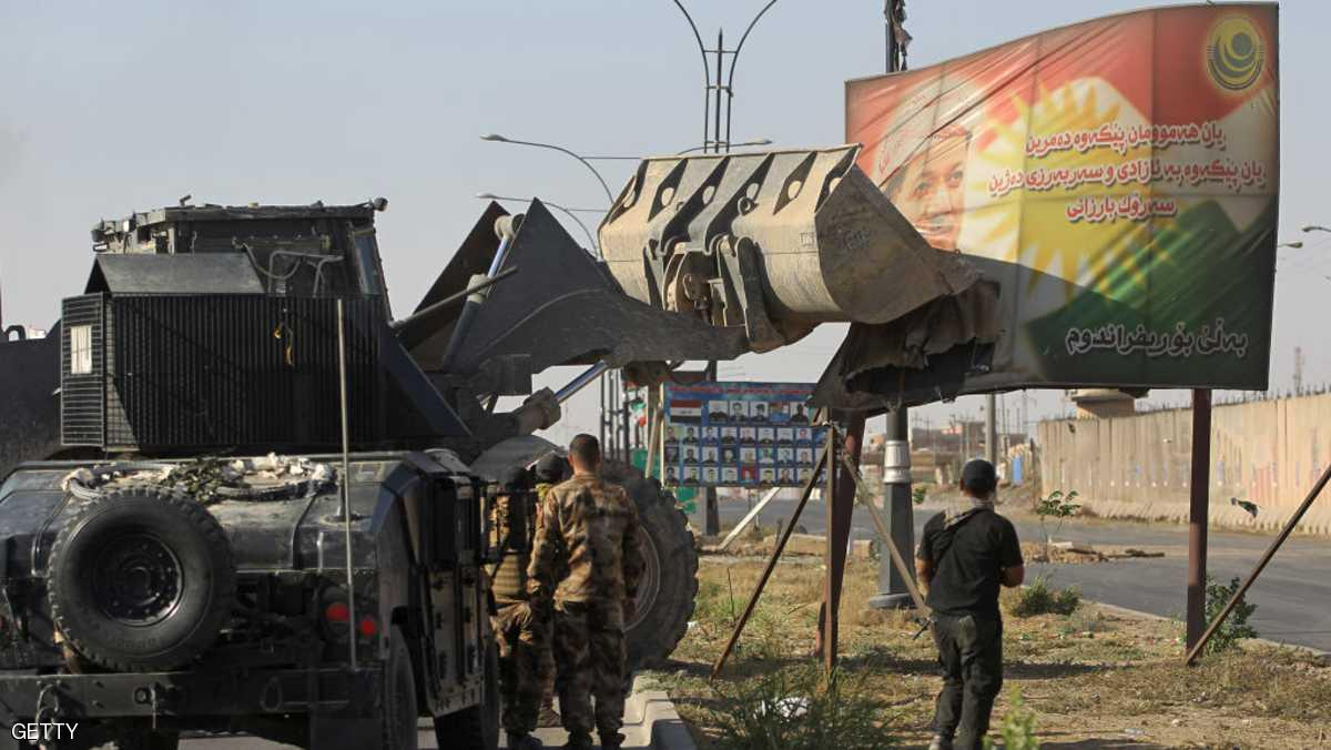 Barzani photo in kirkuk